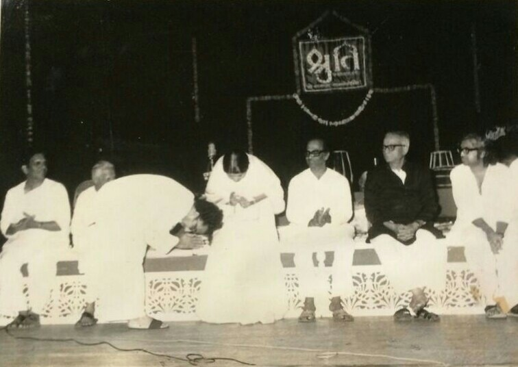 Desai before music stalwarts like Lata Mangeshkar, Hridaynath Mangeshar and Salil Chaudhary